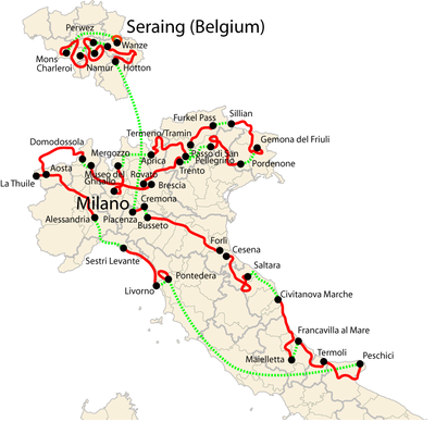 Route of the 2006 Giro d'Italia. Image is based on File:Giro d Italia 2006.png, uploaded by Niels Bosboom, and cropped to exclude some of the southern area of Italy which was not visited in the race.